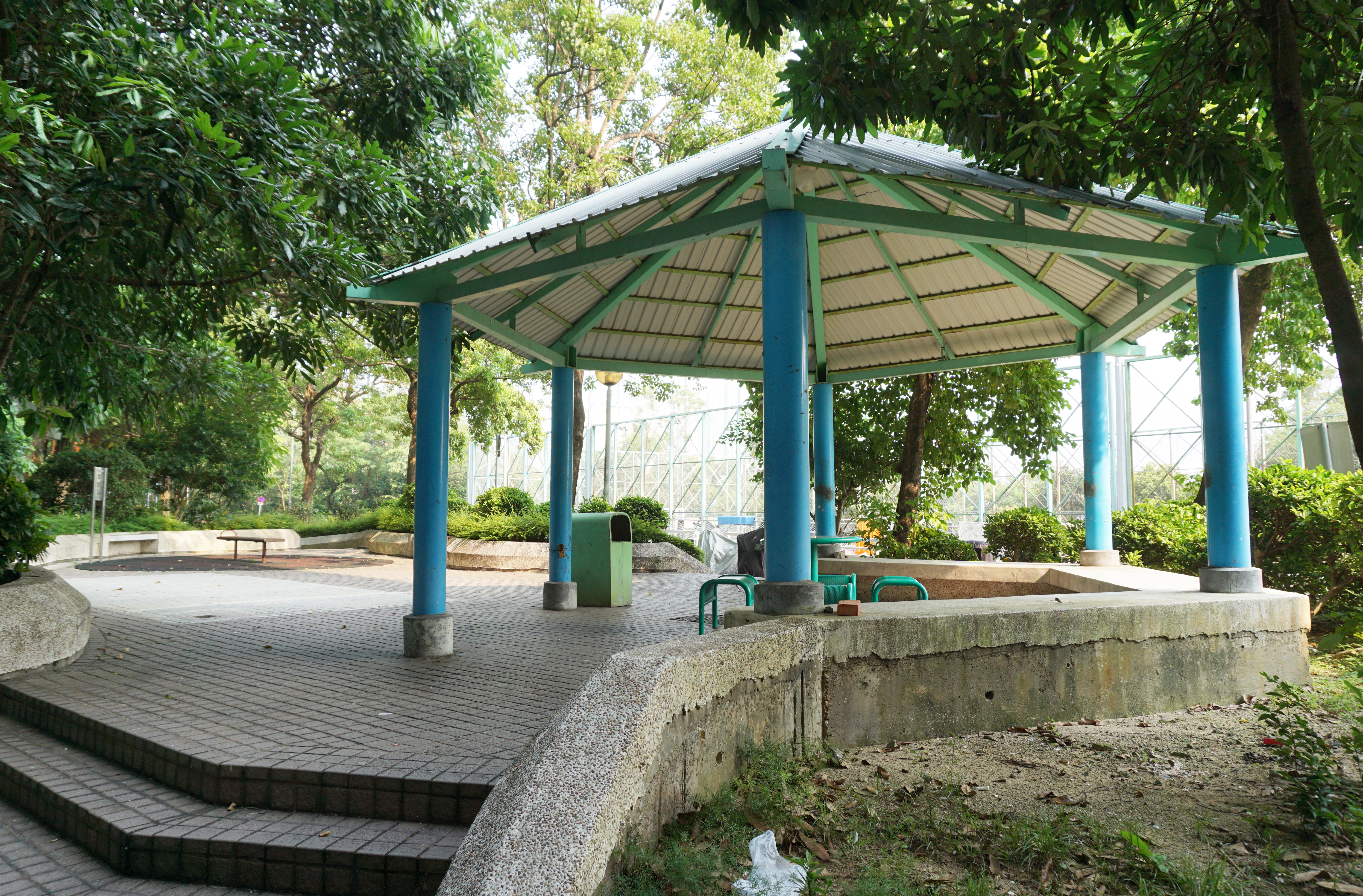 Wah Kwai Estate in Pok Fu Lam, Hong Kong.